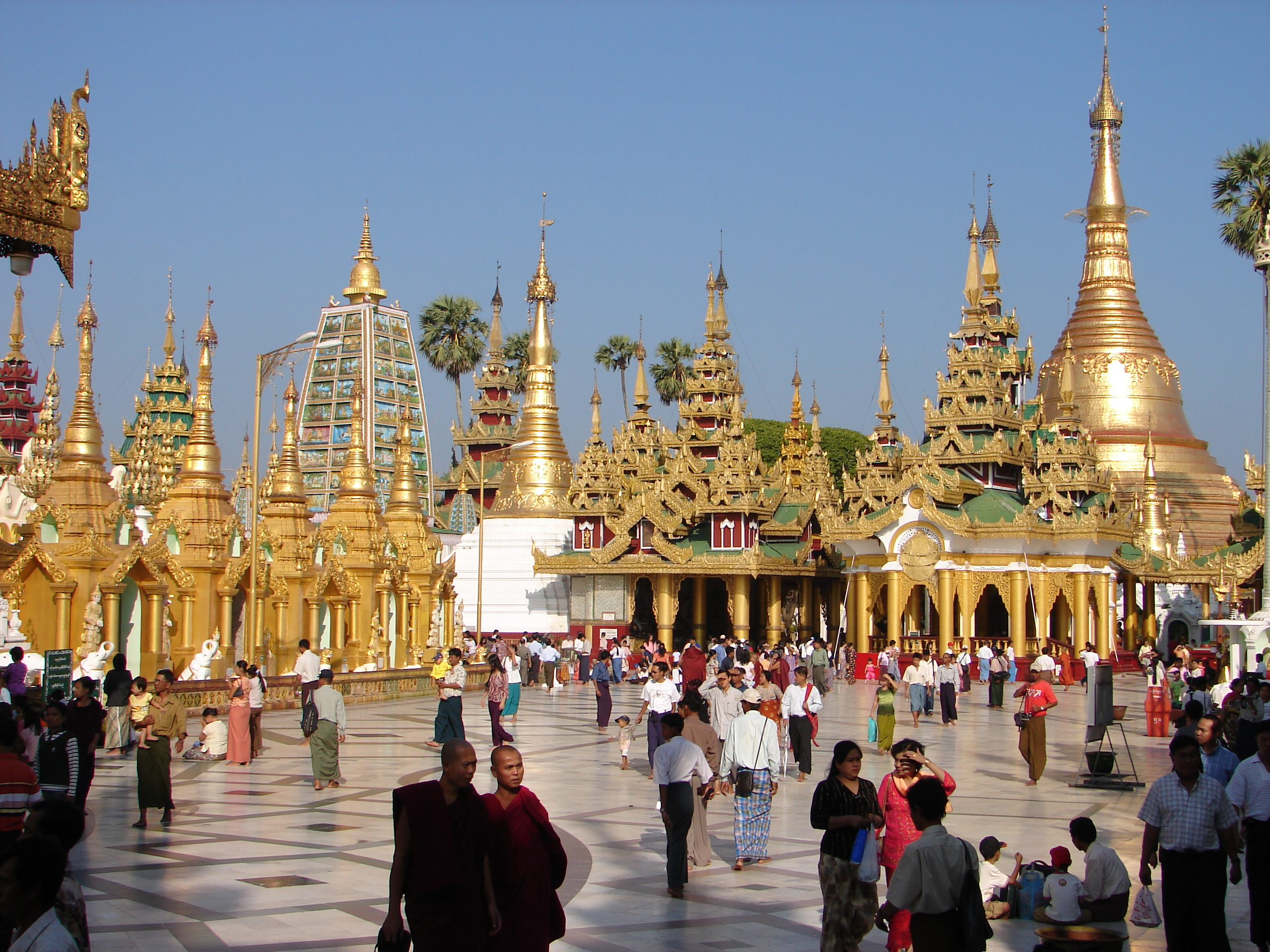 A crowded day at Shwedagon Pagoda